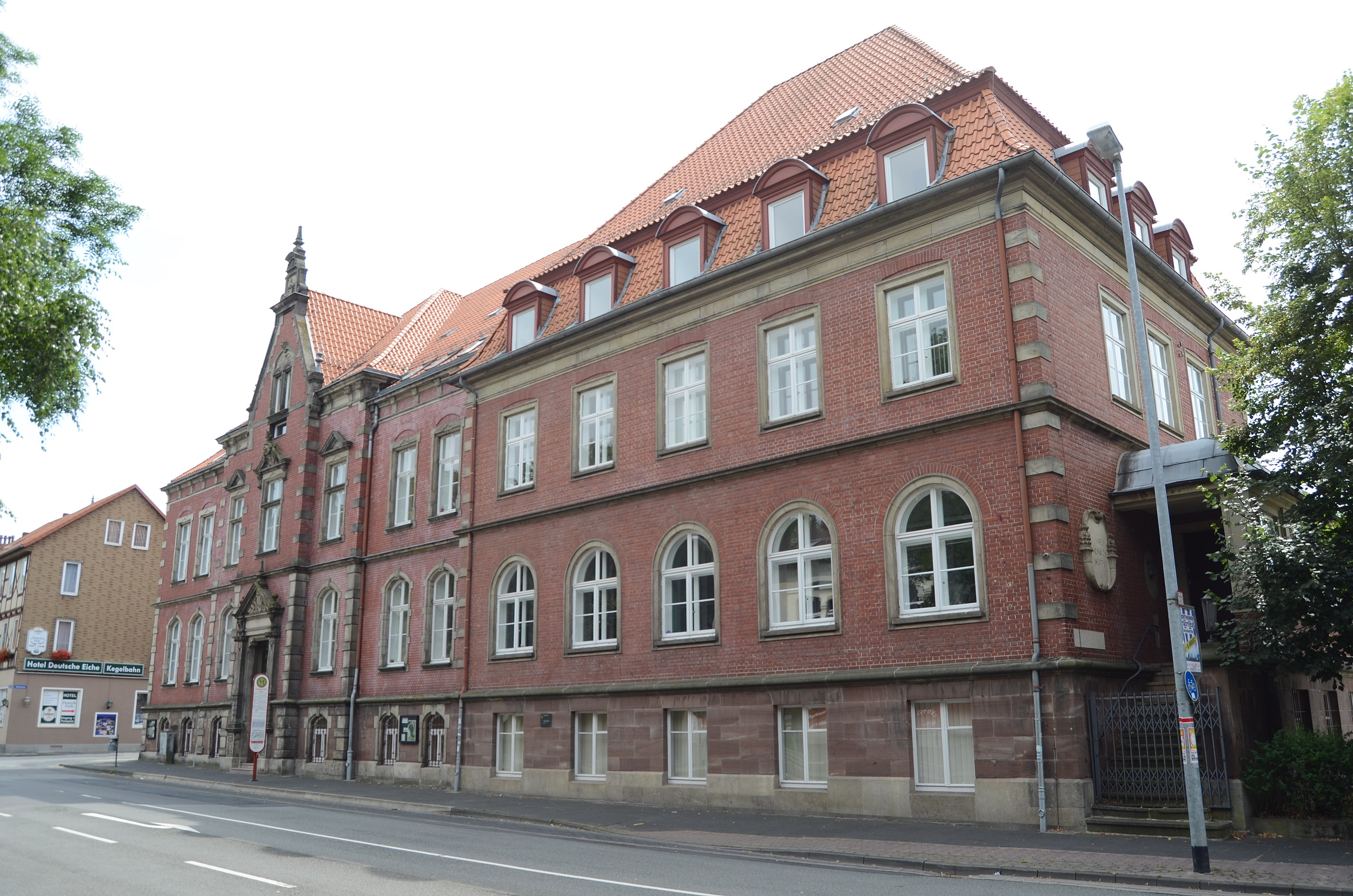 This is a photograph of an architectural monument.It is on the list of cultural monuments of Northeim This photograph was taken with a Nikon D7000 Northeim, Katasteramt